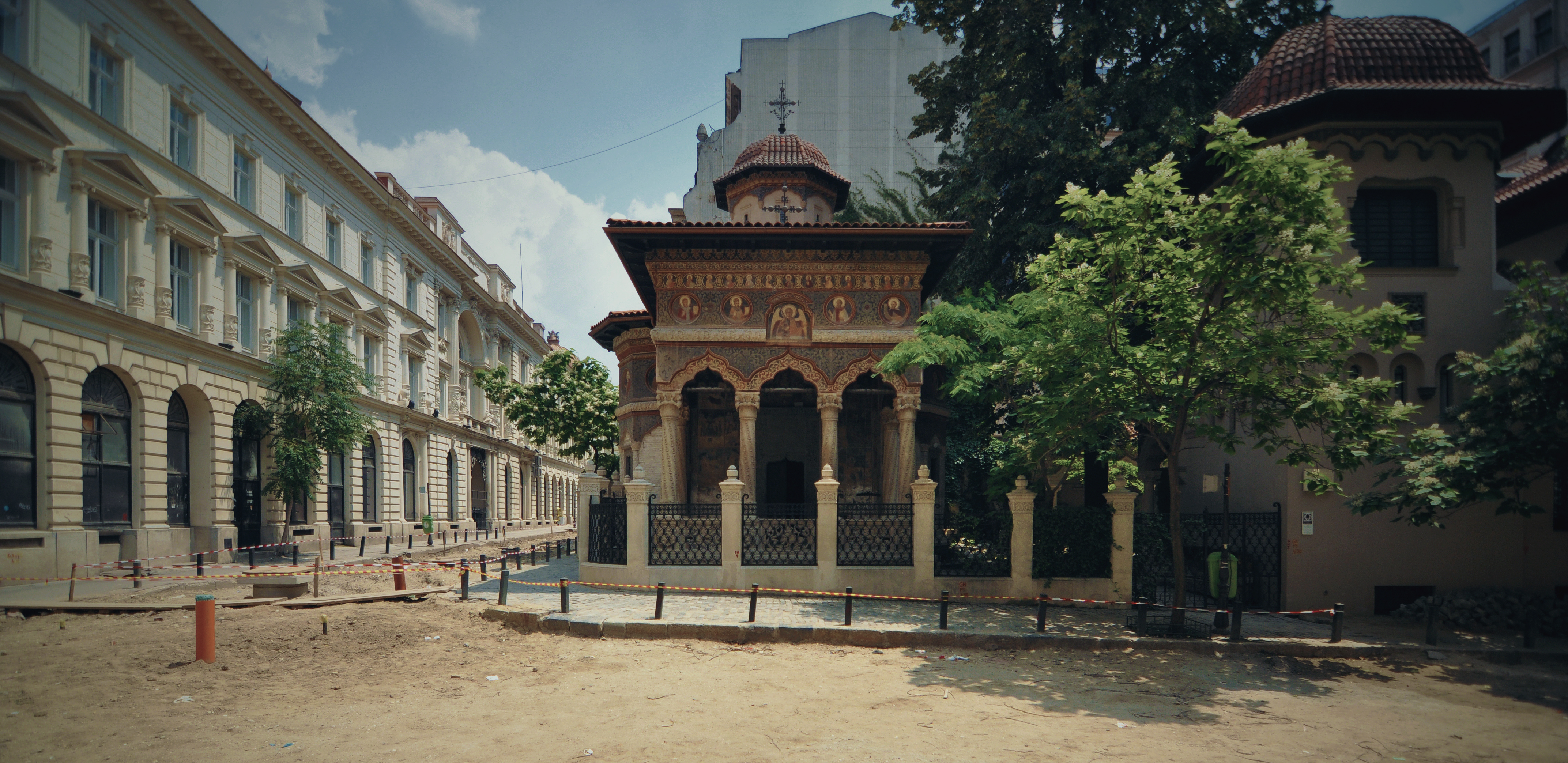 Stavropoleos Monastery, Bucharest, Romania